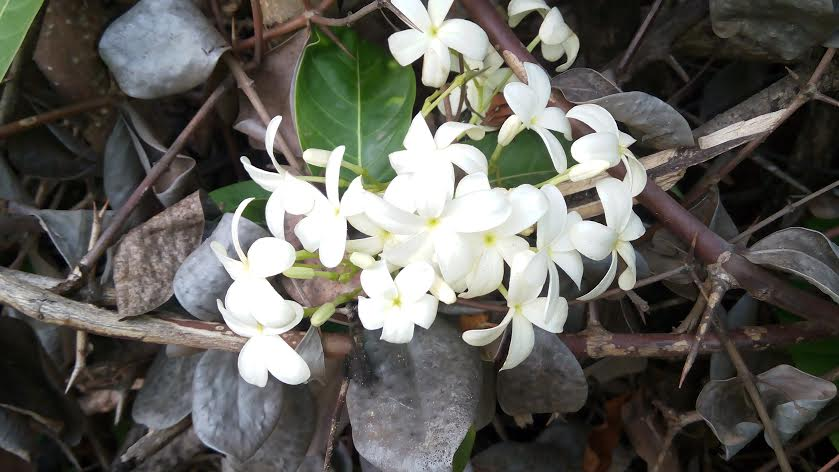 flower in india